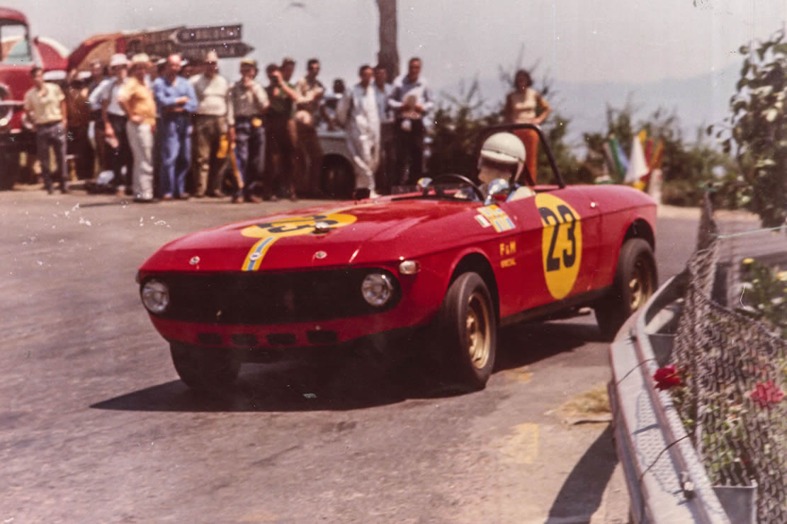 Mugello (Tuscany, Italy), Mugello road circuit, July 20, 1969. Italian motor racing driver Claudio Maglioli on #23 Lancia F&M Special of Lancia & C. at the 1969 Mugello Grand Prix, valid as round 8 of Italian Sport Championship. The "Fiorio & Maglioli" Special was a Fulvia Coupé HF 1.6, with V4/12° engine and dual overhead camshaft, transformed into racing barchetta by Lancia's driver and tester Claudio Maglioli, and racing team manager Cesare Fiorio.